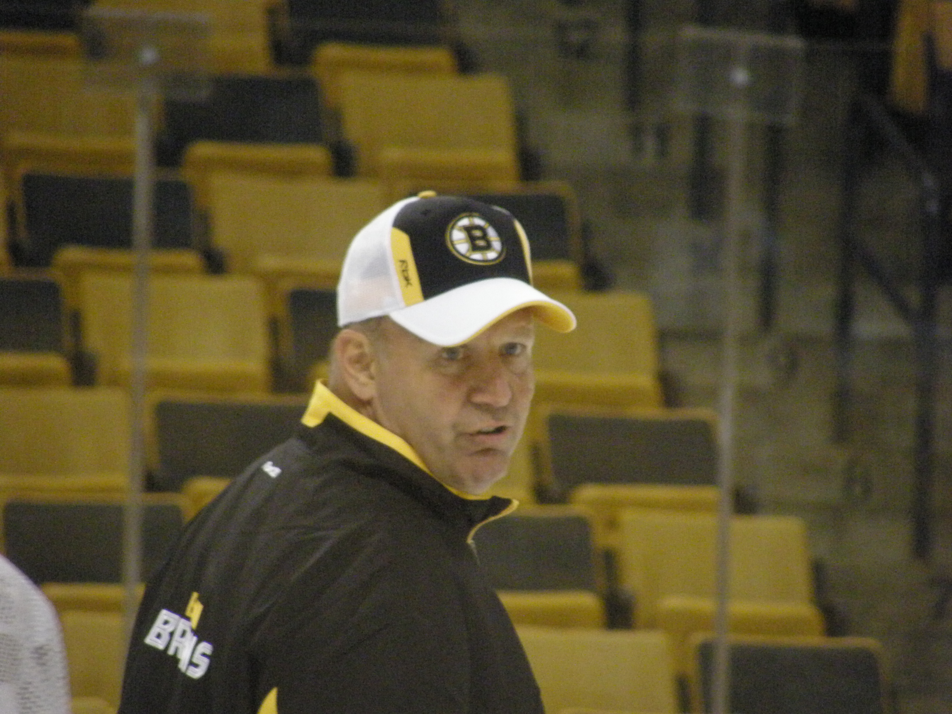 According to the Boston Globe Bruins blog, Claude Julien was quite positive about this practice.